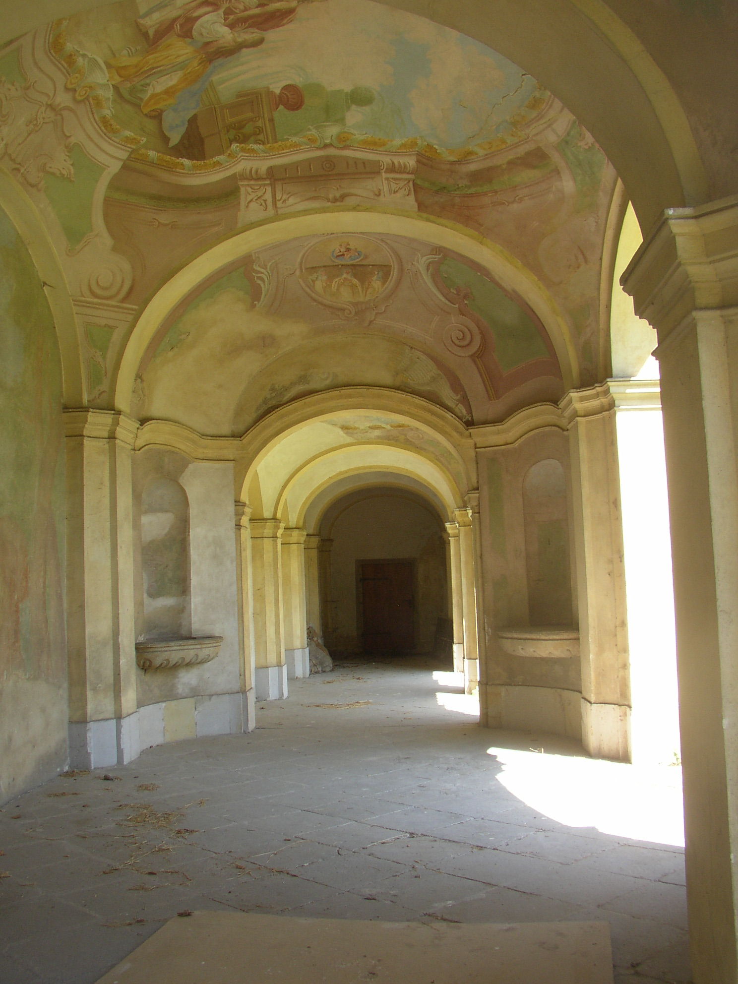 Arcade pavilion from 1756 in garden of female Premonstratensian convent in Doksany, Litoměřice District, Czech Republic. A view along interior of the pavilion from SSW towards NNE.